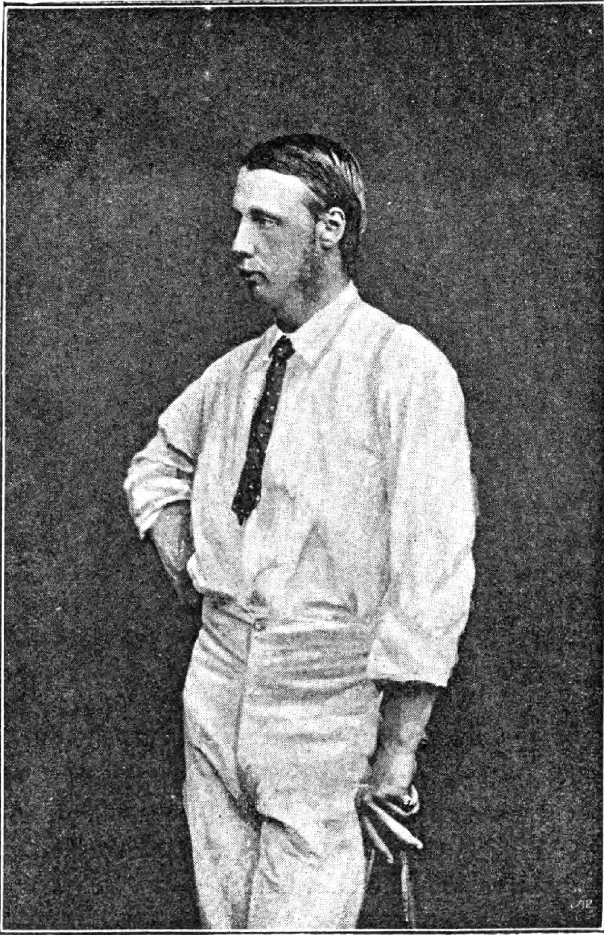 C.I. Thornton